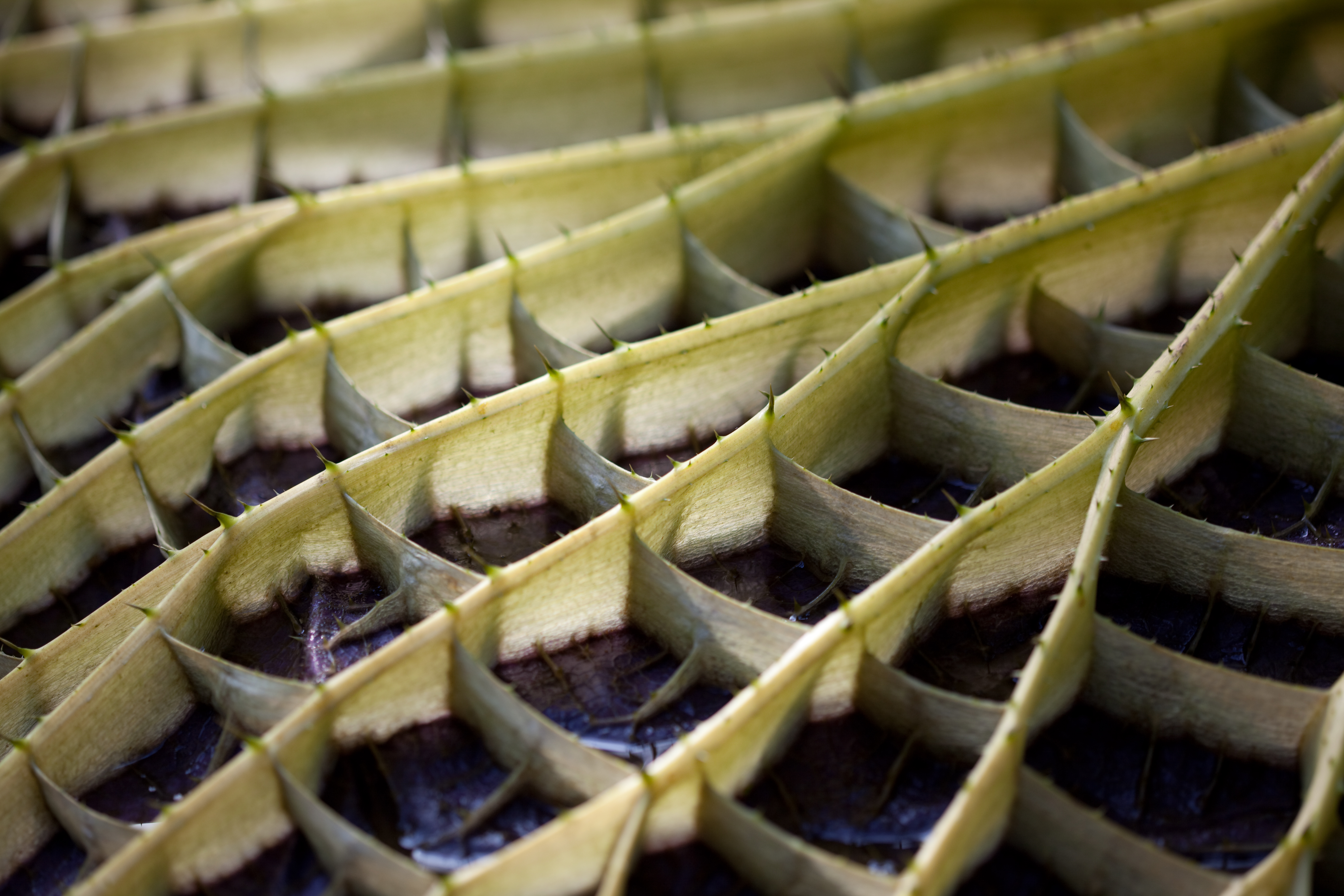 Victoria amazonica, back side of a leaf, details (Kobe Kachoen)